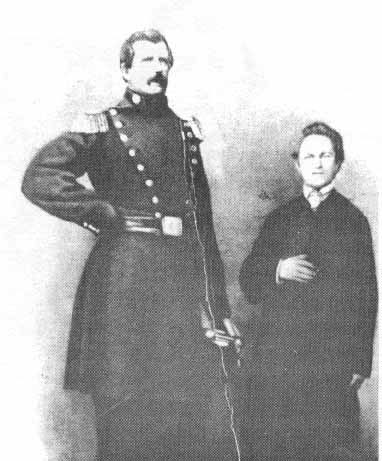 Angus MacAskill in Uniform beside a (6 feet 5 inces tall) canadian friend